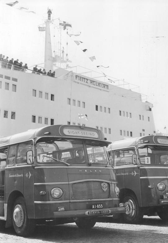 M/S Fritz Heckert in Helsinki in 6.5.1961. Scania-Vabis/Helko buses